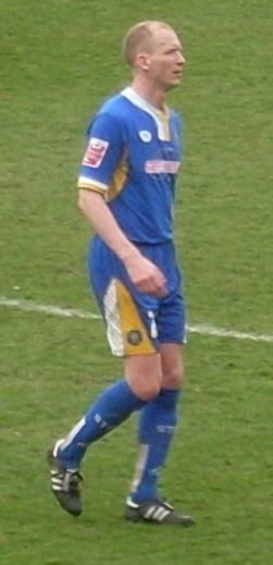 Colin Murdock, taken by 03x072 on April 13, 2008. To be added to Colin Murdock.